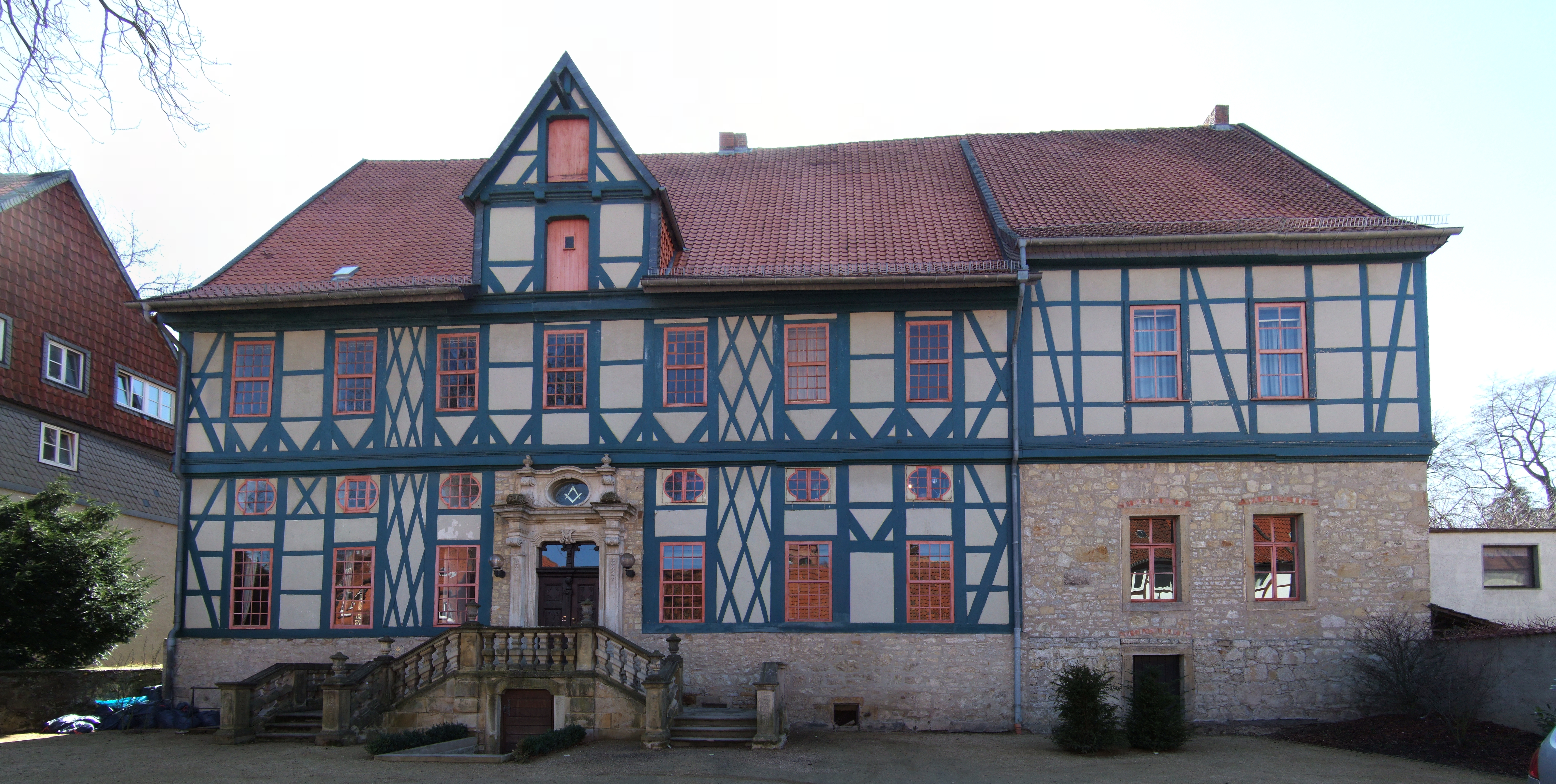 Dompropstei Hildesheim